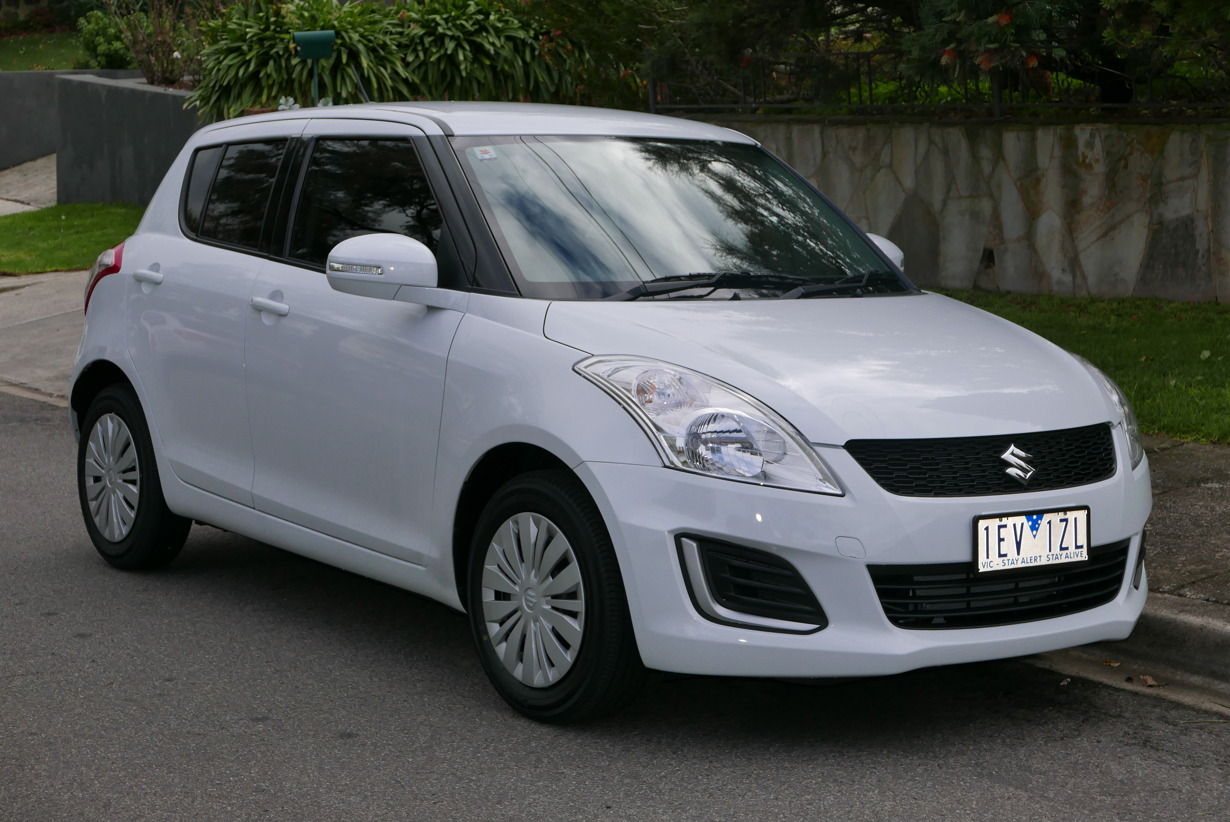 2015 Suzuki Swift (FZ MY15) GL 5-door hatchback. Photographed in Thornbury, Victoria, Australia. Vehicle registration enquiry resultsJurisdictionVictoriaRegistration1EV1ZLChassis codeJSAFZC82S00317646Engine codeK14B1107429Compliance date2015-04Year of manufacture2015